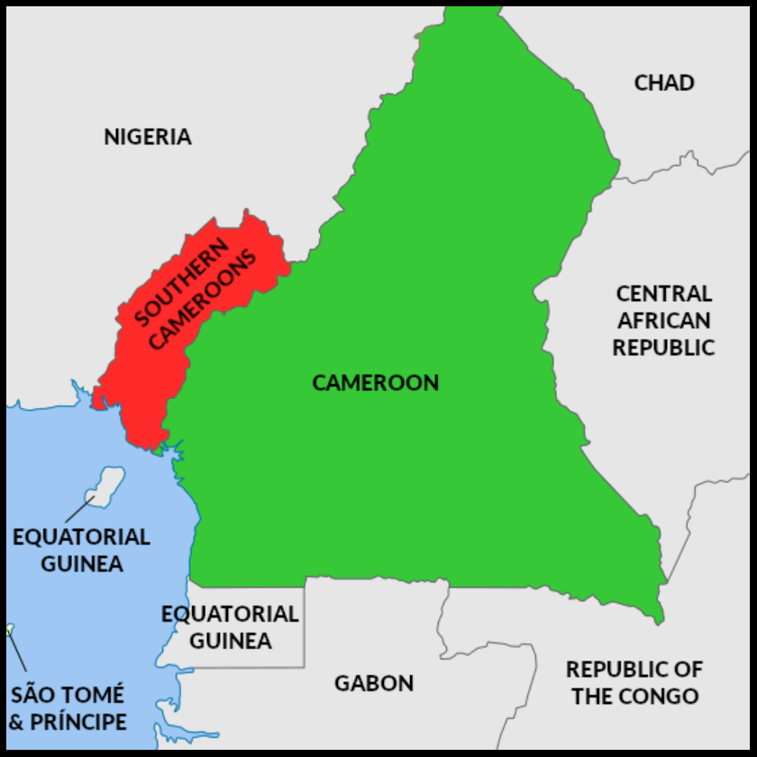 This is a map showing the territory claimed by the Federal Republic of Ambazonia.